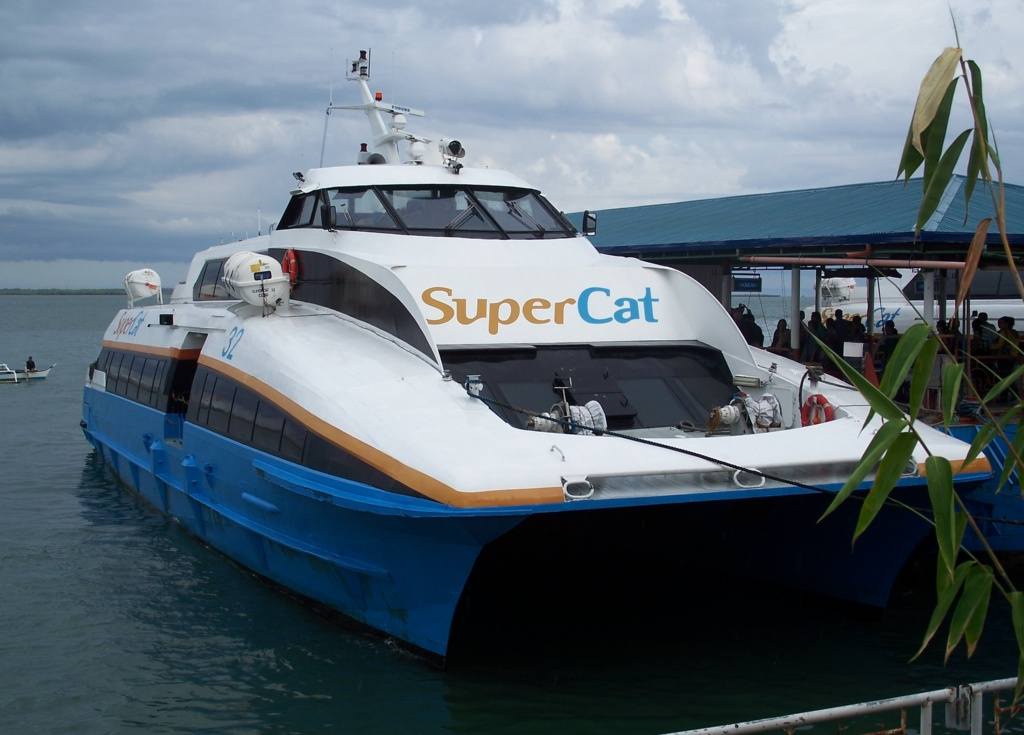 Catamaran passenger ferry in the port of Cebu City